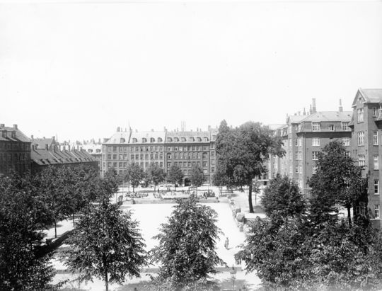 Blågårds Plads in Copenhagen, Denmark c 1920